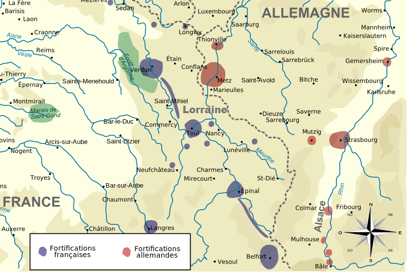 The border between France and Germany, French (blue) fortifications (the main at Verdun, Toul, Epinal, Belfort, Langres) and German (brown) fortifications (the main at Thionville, Metz, Mutzig, Strasbourg), 1914.